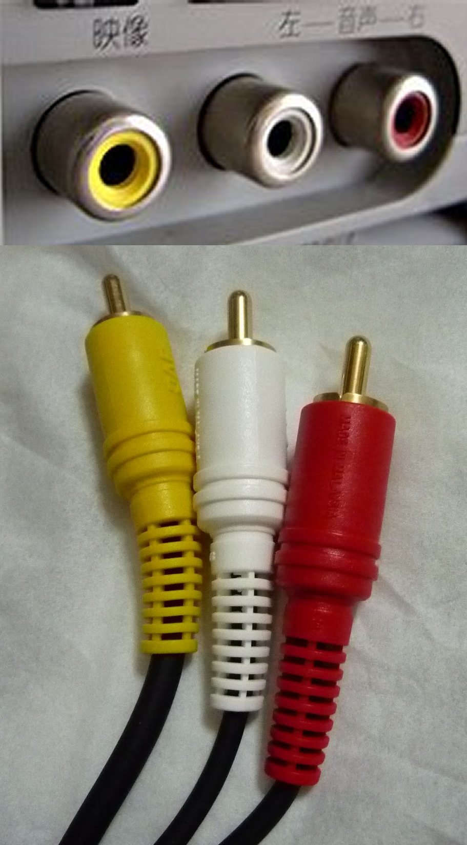 RCA type jack and plug for video (Yellow)and audio (Right=Red, Left=White).Self Shot plug photo and jack photo, excerpt then modified from Image:RCA plugjack.jpg (up loaded by user:Oh-moo on 2005-8-25 under "Permission is granted to copy, distribute and/or modify this document under the terms of the GNU Free Documentation License, Version 1.2 or any later version"), are concatenated.